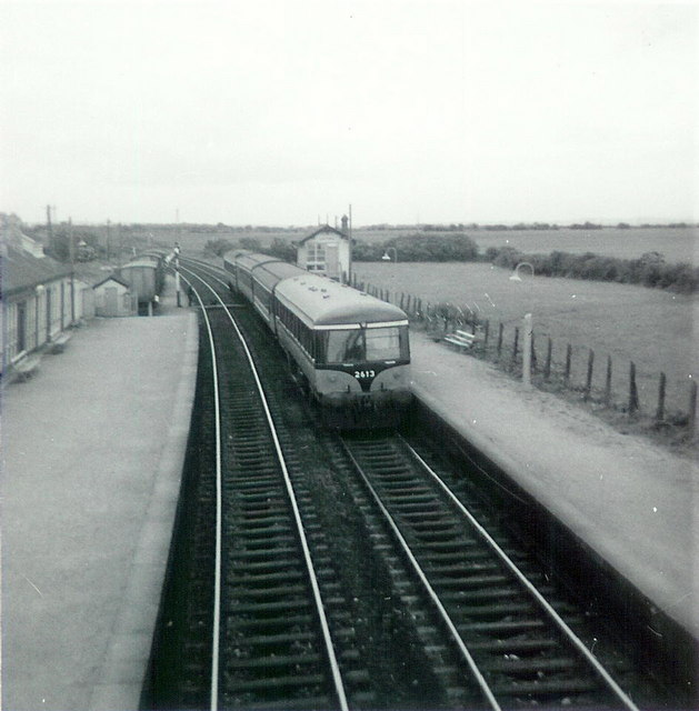 Train of CIÉ 2600 Class railcars at Laytown, Co. Meath, Ireland. The signal box and goods siding are long gone since this picture taken. Housing now covers all the fields visible on the right.